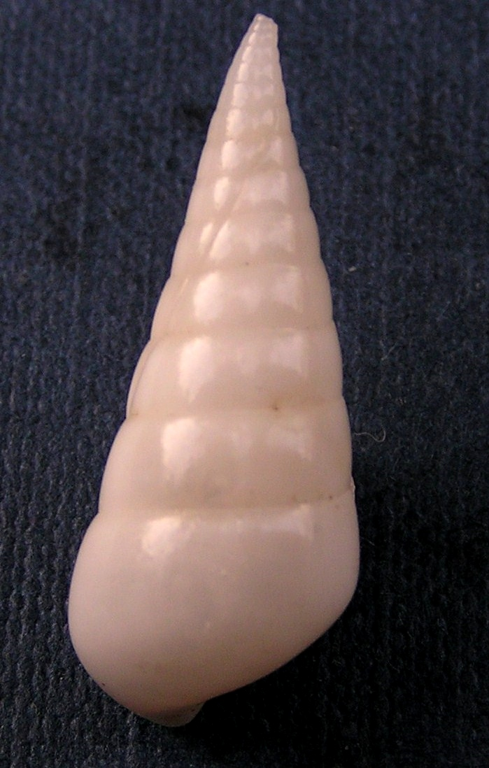 Melanella martiniiF. (A. Adams in Sowerby, 1854) a sea snail from the family Eulimidae: Philippines